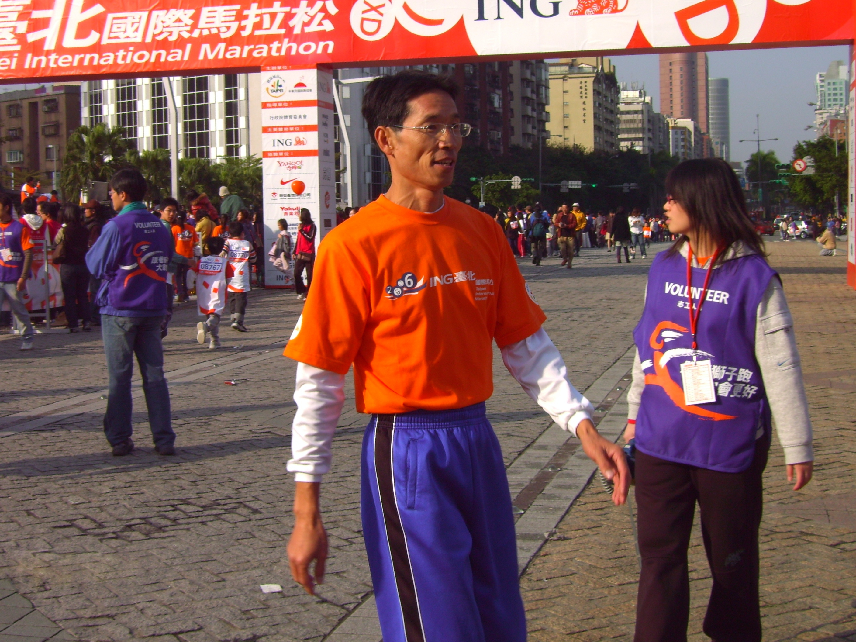 Victory Chi-Sheng Hsu, Double Crown winner of 1995 Chinfon Kaohsiung International Marathon, is the leading runner in the Kids Group at 2006 ING the 10th Taipei International Marathon.